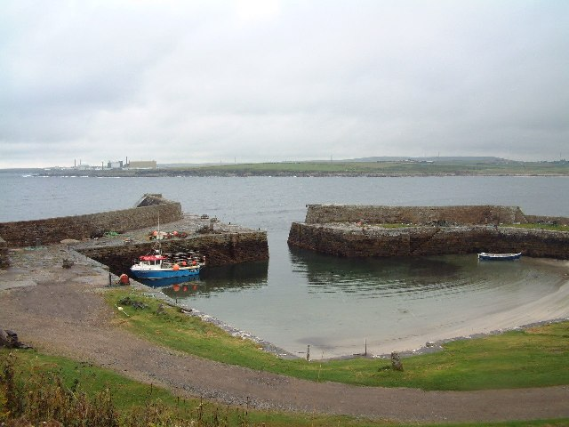 Sandside Harbour. Also known as Frsgoe Harbour, this is privately owned. Dounreay nuclear power station can be seen in the distance across Sandside Bay.